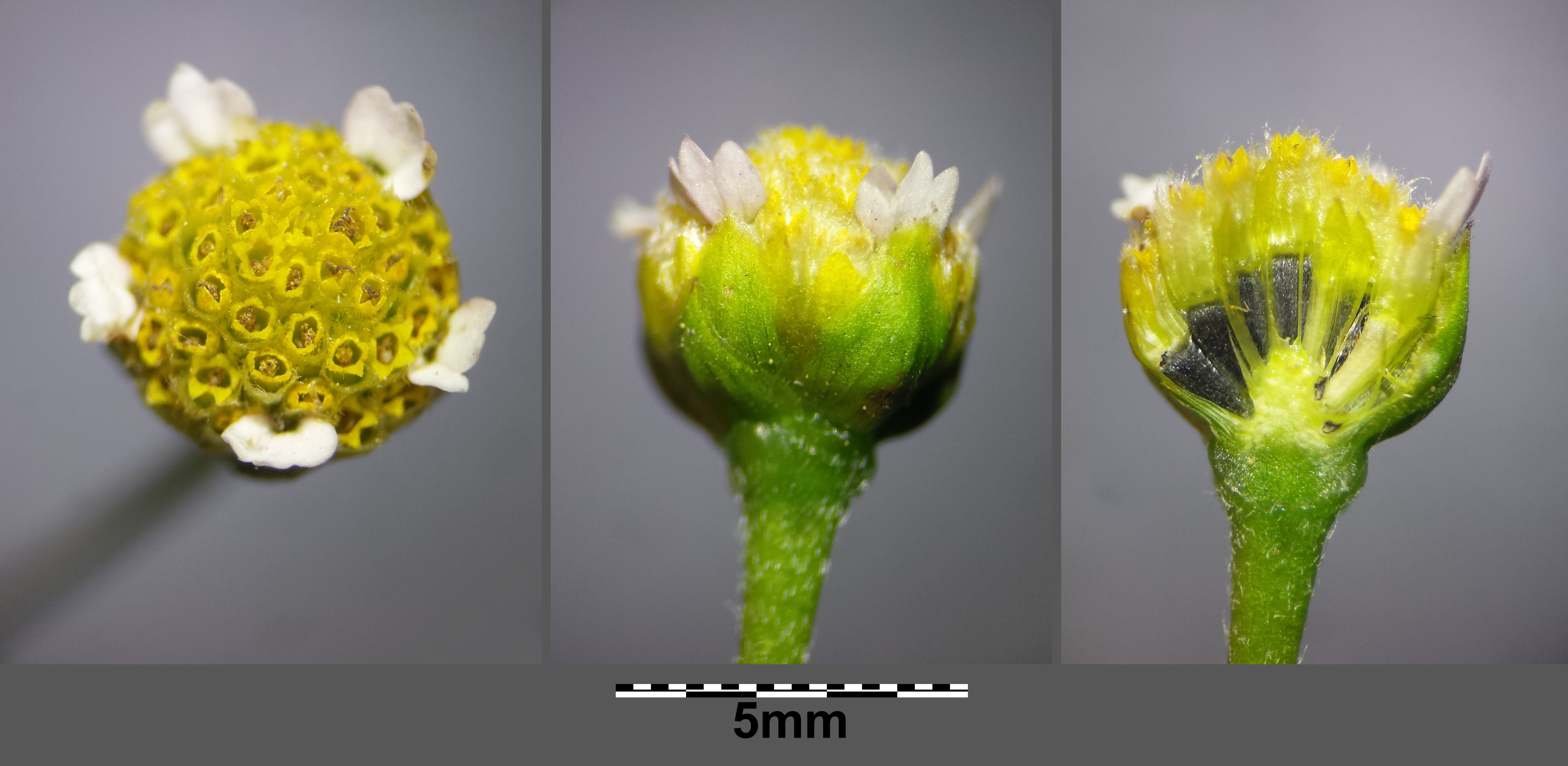 Flower basket Taxonym: Galinsoga parviflora ss Fischer et al. EfÖLS 2008 ISBN 978-3-85474-187-9 Location: Nordmanngasse, Donaufeld, Vienna-Floridsdorf - ca. 160 m a.s.l. Habitat: wet field